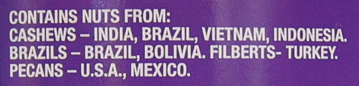 The label on a 32 oz. jar of Office Depot mixed nuts, on sale in 2006, acknowledges ingredients from eight countries: Cashews from India, Brazil, Vietnam, and Indonesia Brazil nuts from Brazil and Bolivia Filberts from Turkey Pecans from the United States and Mexico